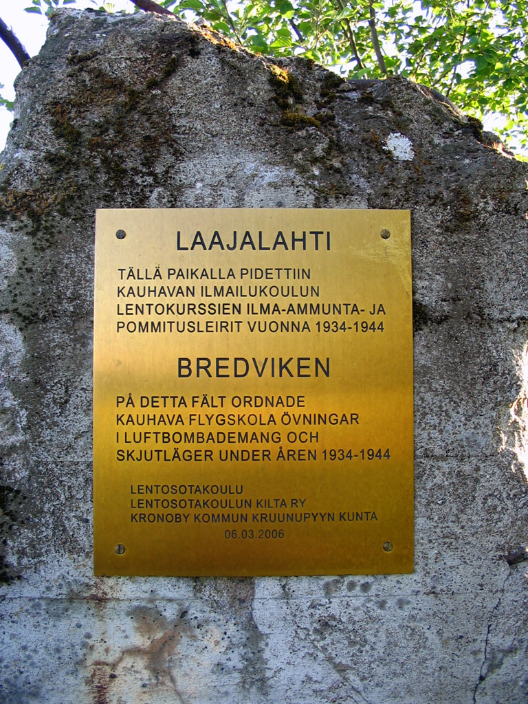 Memorial plate on former Laajalahti airfield in Kokkola, Finland.